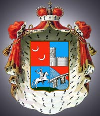 Coat of arms of the Meshchersky family.